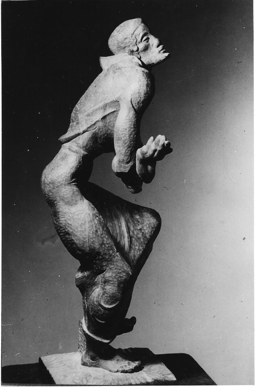 Sculpture of dancing male figure by Jacob Brandenburg, wood